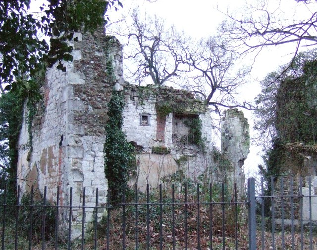 Betchworth Castle (Ruins of) Now trapped inside the grounds of a golf course, this ruin dates back to the early 18th century, but there has been a castle on this spot as far back as the 14th century.